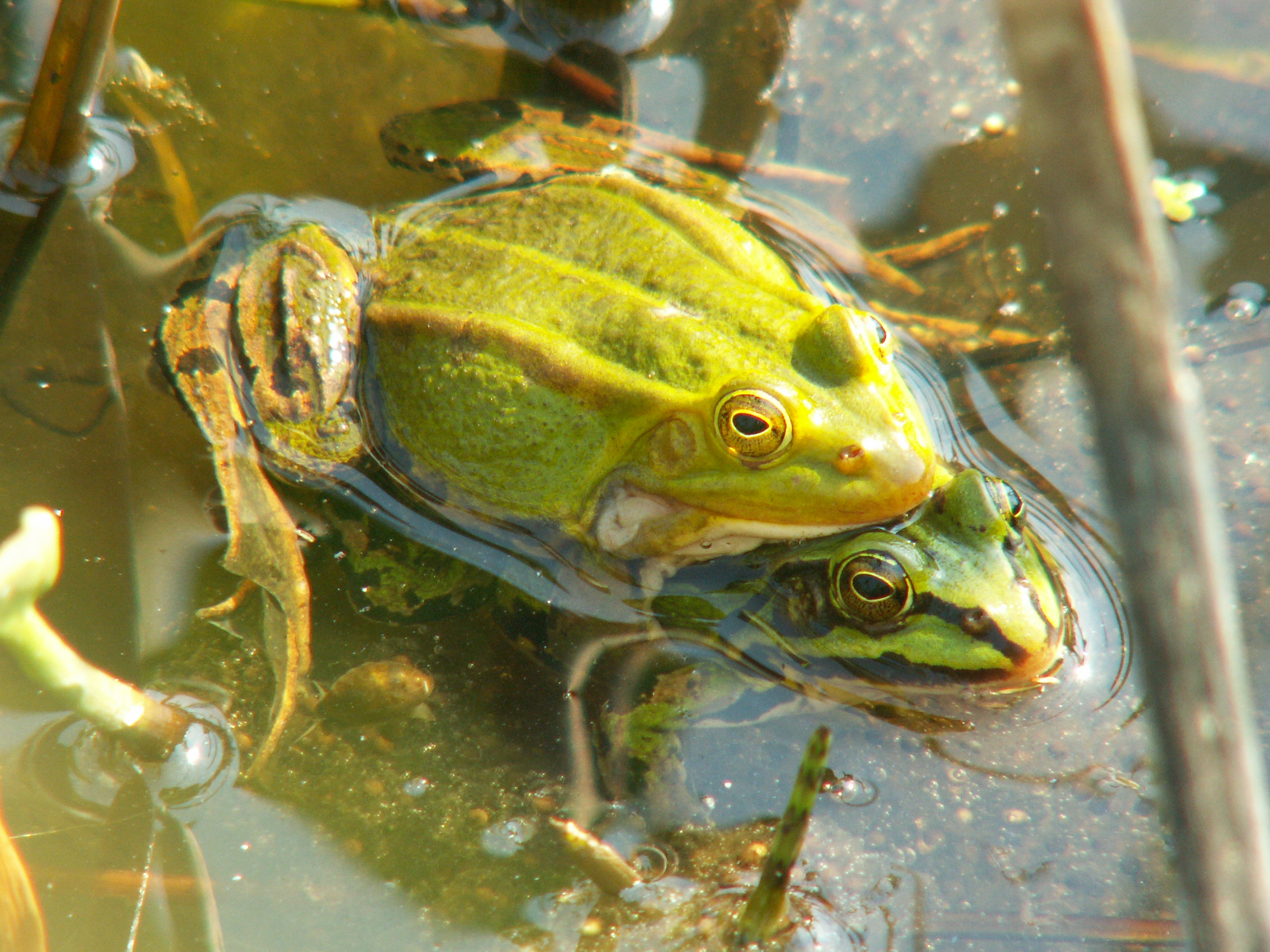 Amplex of the moor frog Pelophylax lessonae from the Binnenveld, Wageningen the Netherlands, Note the yellow hue of the male during the breeding season and the symmetrical coloring of the female. The kernels of the eggs which are yellowish brown colored can also be seen in the water in the foreground.